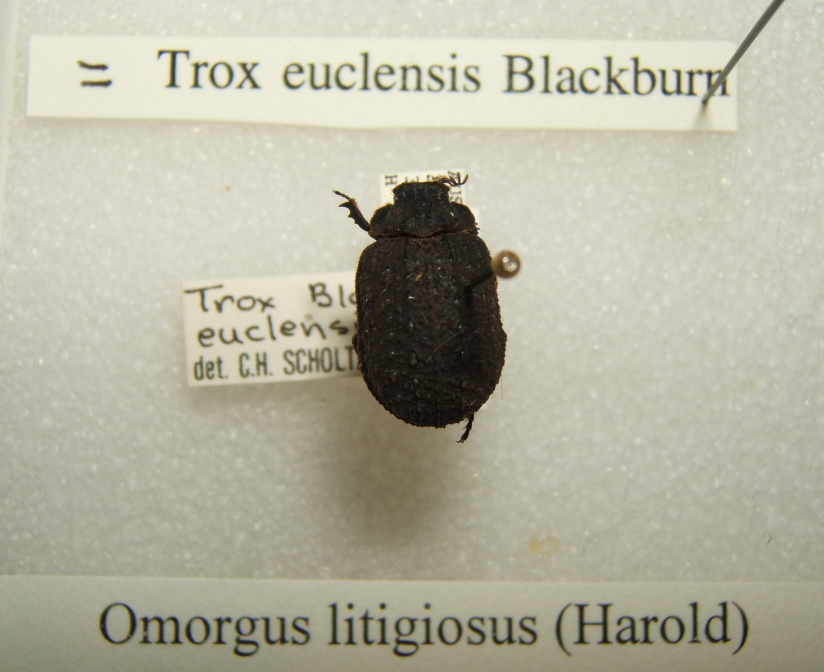 Omorgus litigiosus adult taken by Shawn Hanrahan at the Texas A&M University Insect Collection in College Station, Texas.